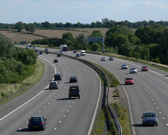 M1 Motorway Looking south from the Stoney Lane Motorway Bridge.